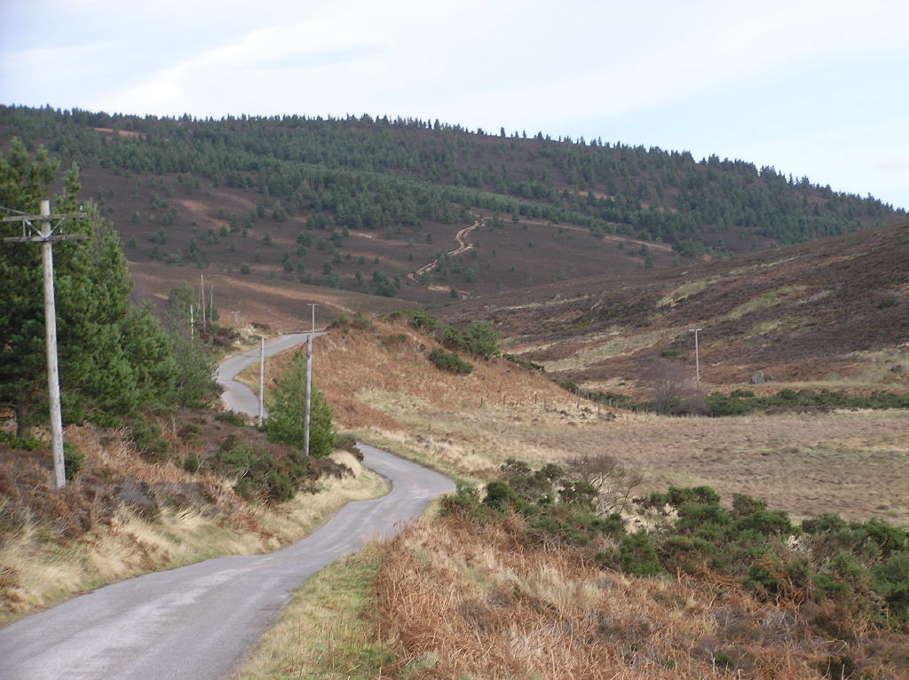 Regeneration of native pinewood in the Forest of Birse, Aberdeenshire, Scotland